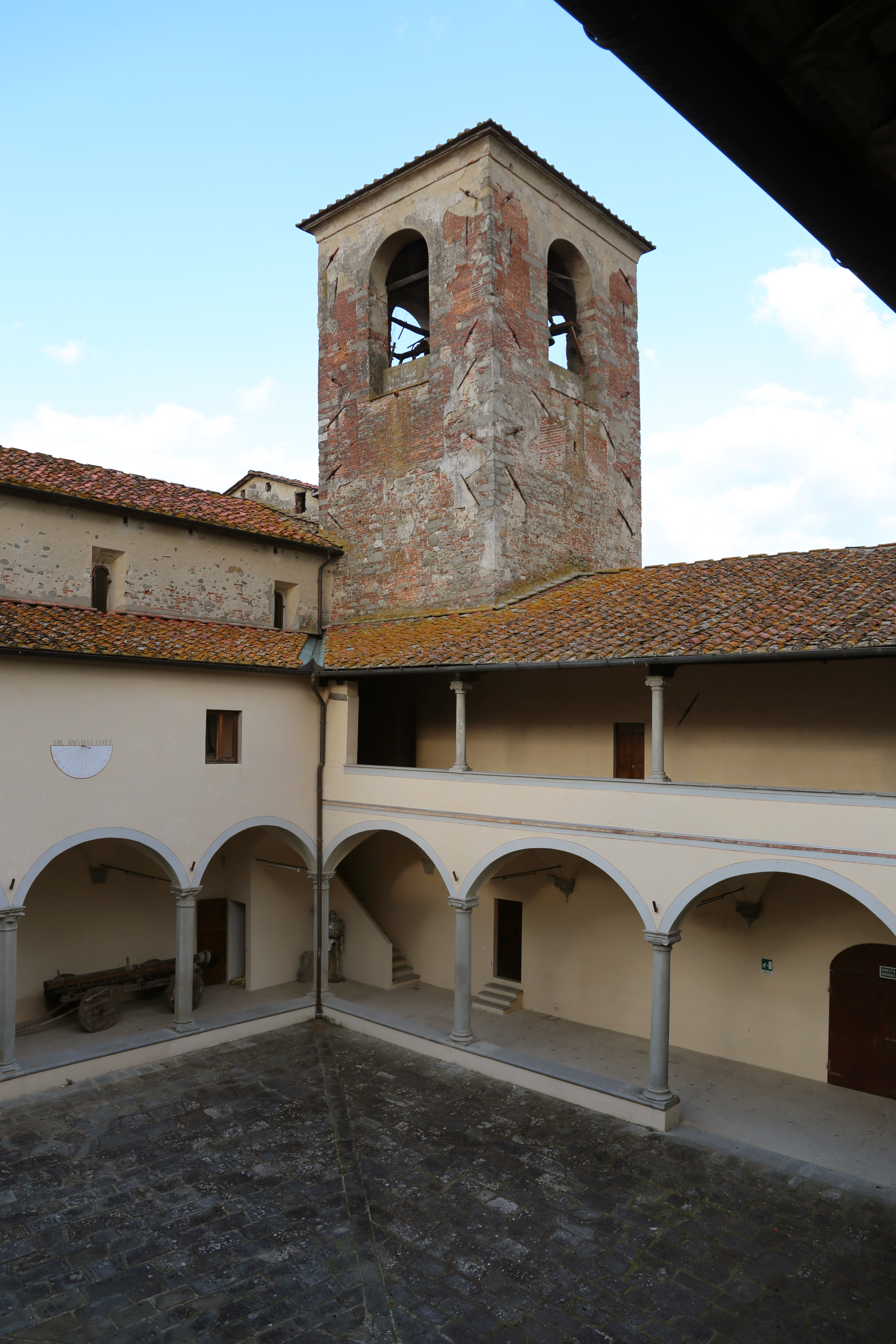 Badia a Pacciana